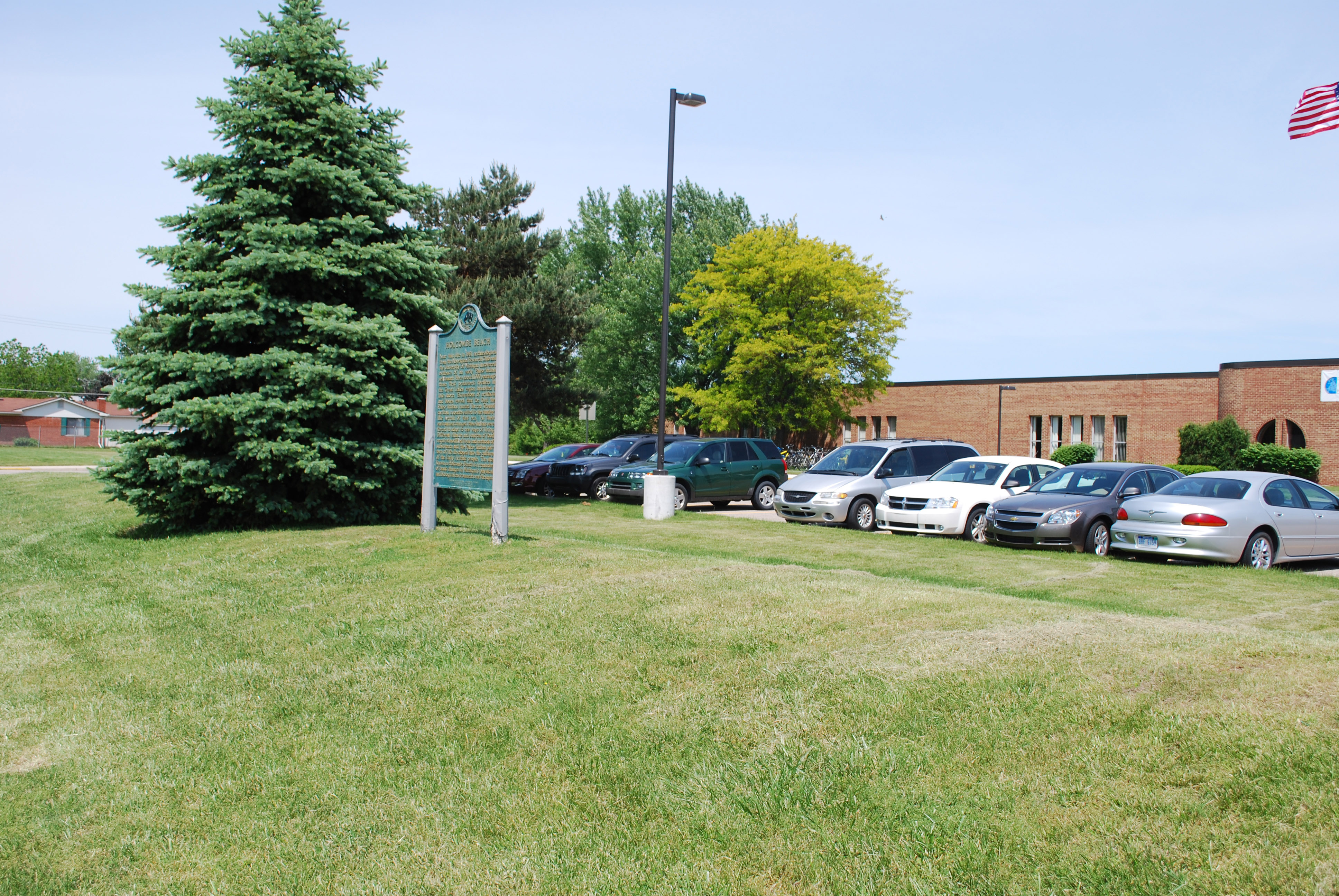 Holcombe Beach Archaeological Site (marker placement), Sterling Heights MI